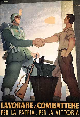 "Work and Fight for your Country and Victory" Italy, WWII propaganda poster